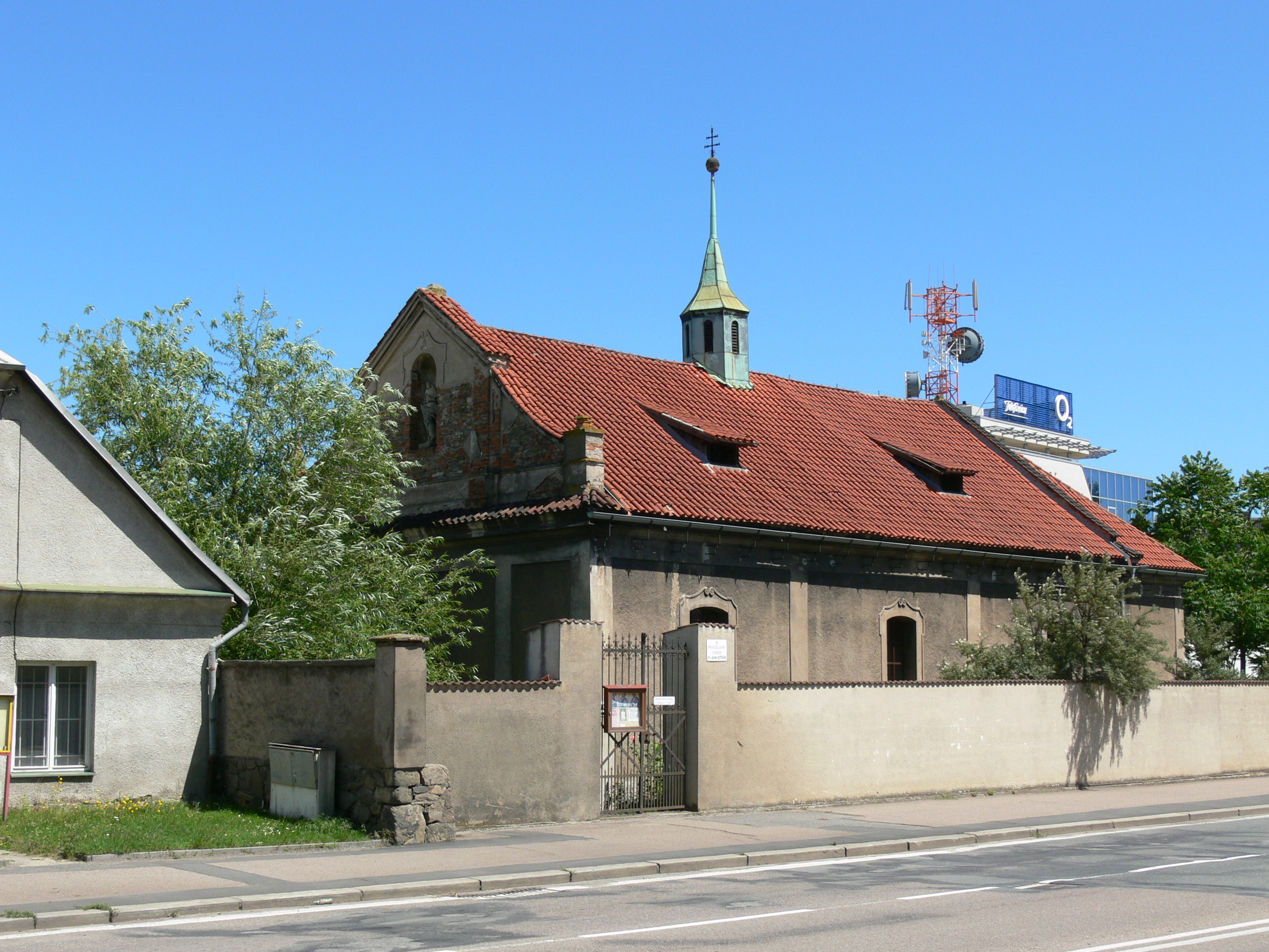 Kolin, St. John the Baptist church, originally catholic, today orthodox